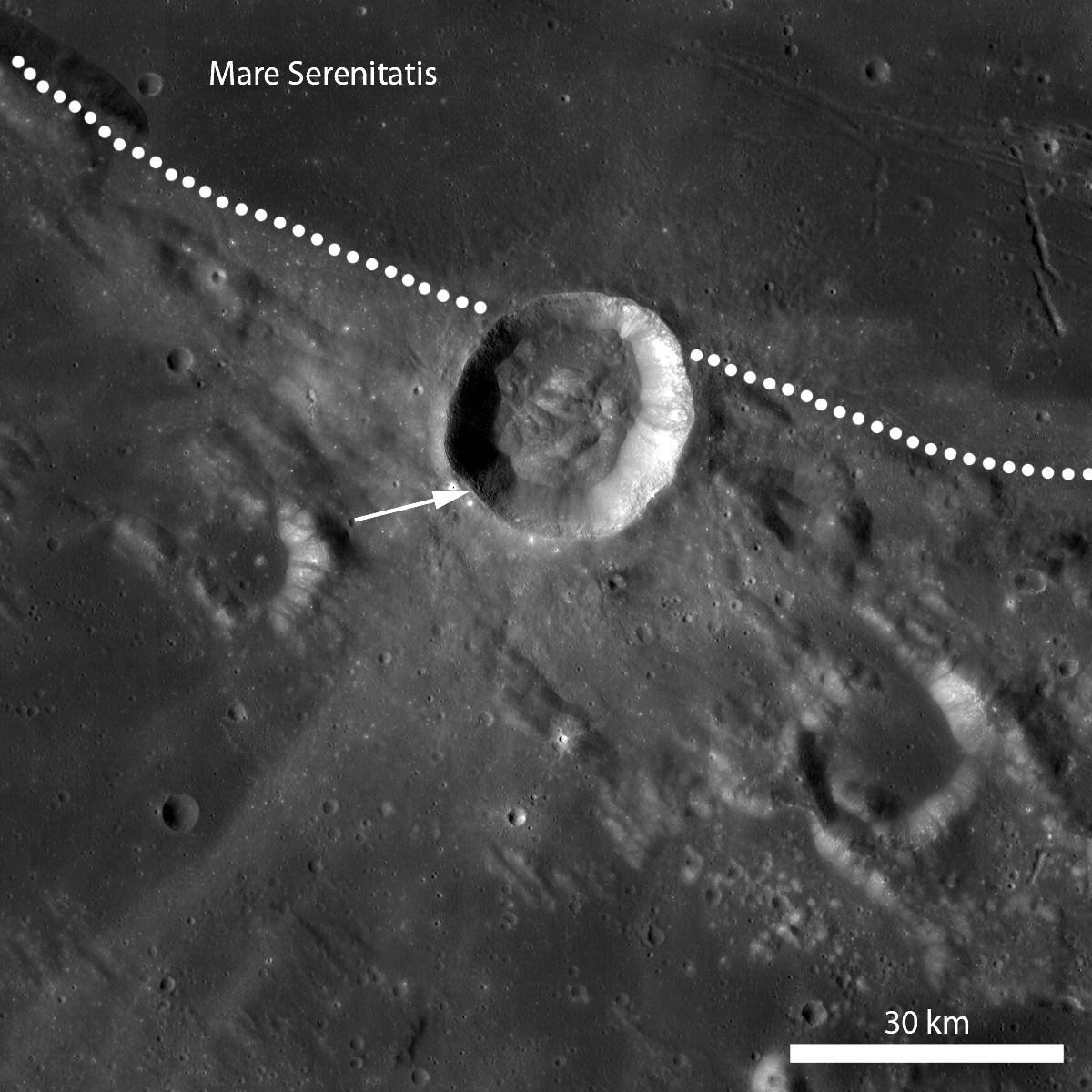 LROC WAC mosaic of Menelaus crater (27 km diameter) and associated ejecta deposits at the boundary between Mare Serenitatis and the highlands (dotted line). The arrow marks the location of today's featured image at the southern rim of Menelaus crater [NASA/GSFC/Arizona State University].